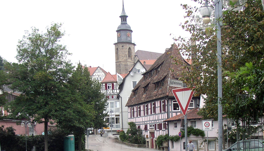 Vaihingen an der Enz, Germany Author: Robert Scott Kellner Source: Photo taken by author in September 2005